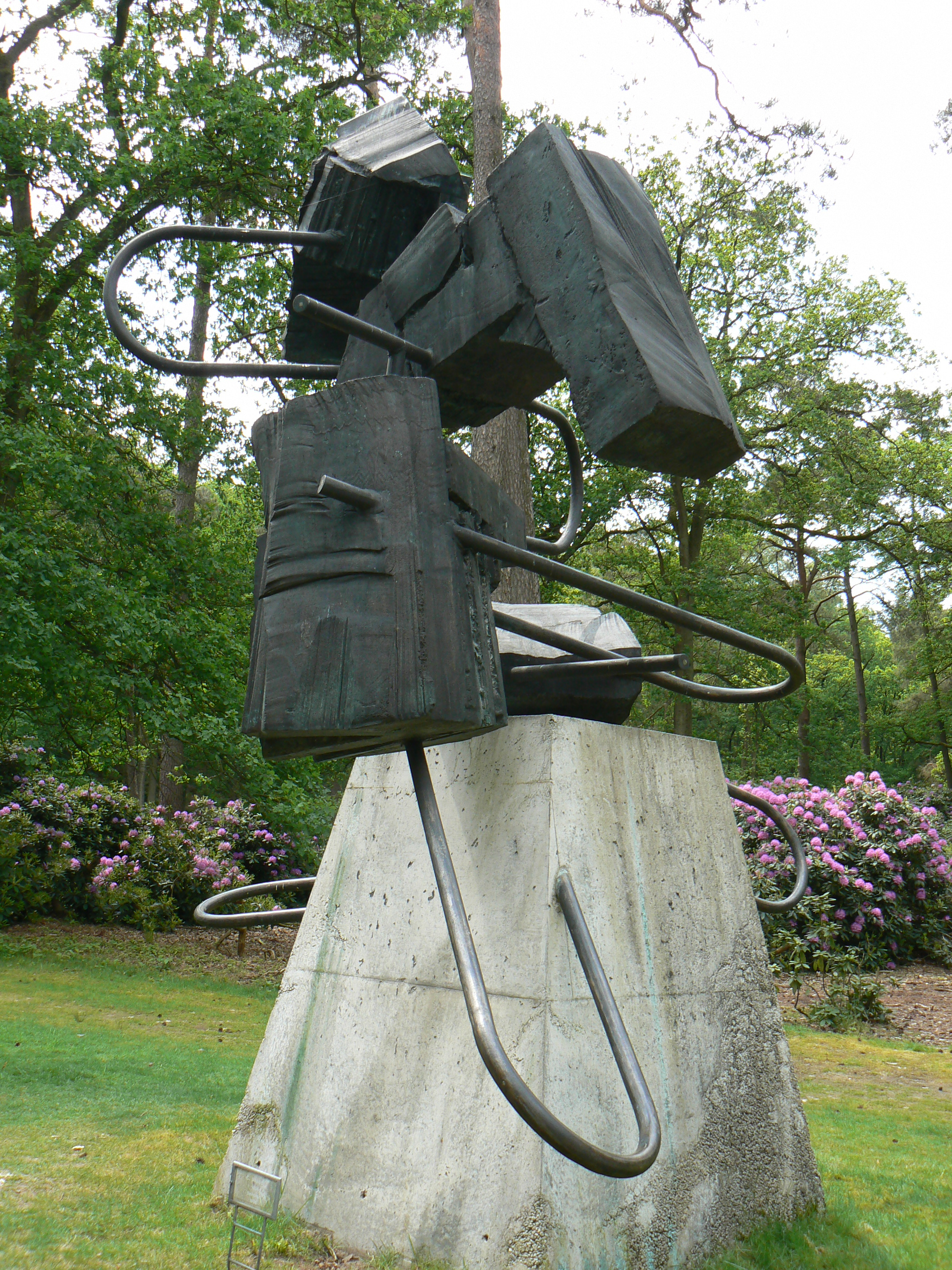 sculpture Pleinbeeld (1998) by Carel Visser in sculpturepark KMM/The Netherlands